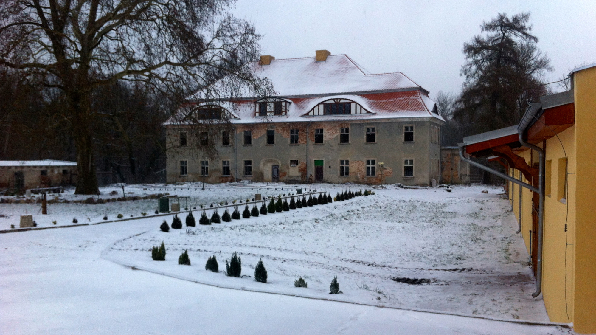 Gorzyca (Gmina Międzyrzecz), Palac